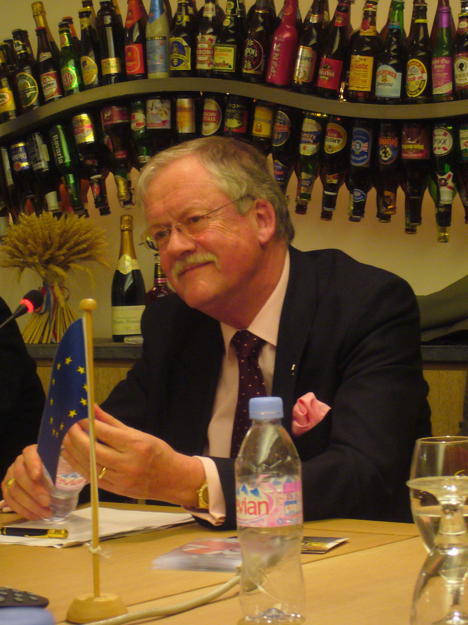 Picture of Roger Helmer MEP, speaking at the Mises Youth Club conference in Brussels